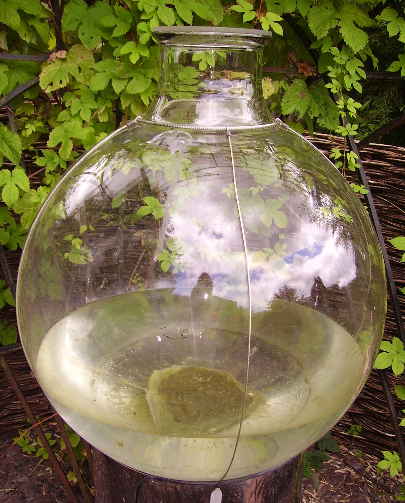 inside the Museum of Welsh Life at Cardiff in Wales